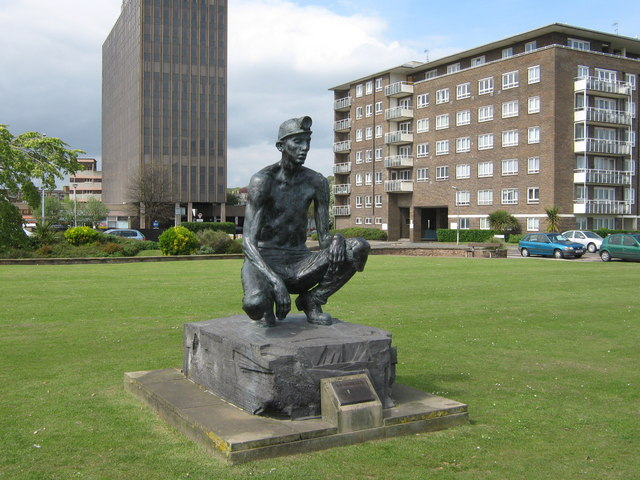 The Waiting Miner, Dover On Marine Parade. The buildings in the background are apartments of The Gateway complex. The sculpture has a plaque which reads 'This statue, sculpted by H. Phillips and was commissioned by the C.E.G.B. and sited by Richborough Power Station in 1996. It was relocated to this site, beside the former Kent National Coal Board and National Union of Mineworkers Offices for Kent, following the closure of Richborough Power Station in September 1997, the statue was donated to Dover District Council by Powergen.' There are now plans to move it again, this time to a Fowlmead Country Park, a former Mineworks site.